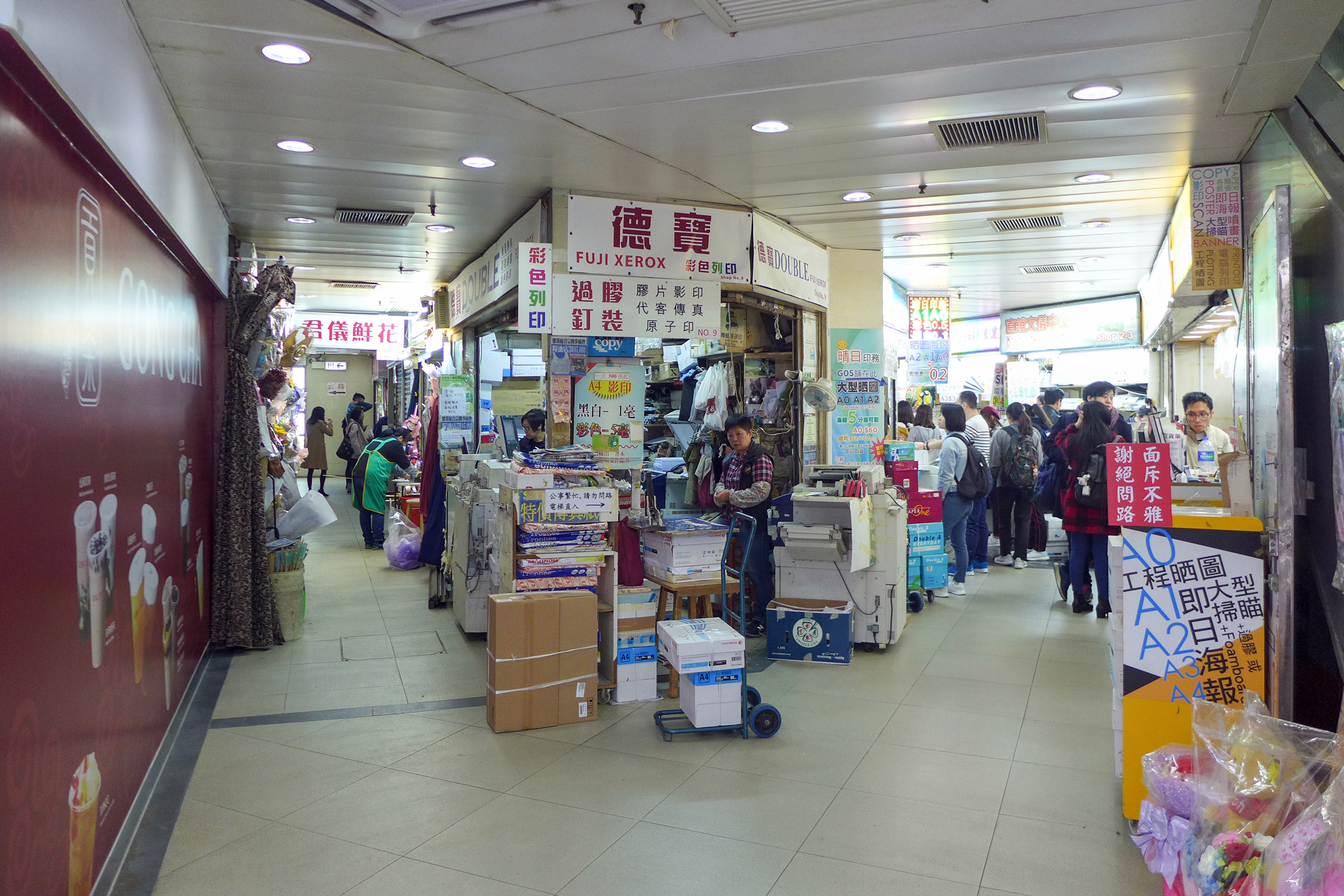 Ho King Commerical Building GF Shops